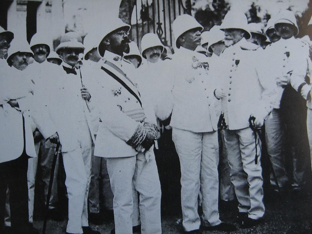 Albert Sarraut (with sash), seen here at a public function in Hanoi in 1913, was governor-general of Indochina twice during the 1910s. The governor-generalship of Indochina was the closest France had to the prestigious viceroyalty of India.